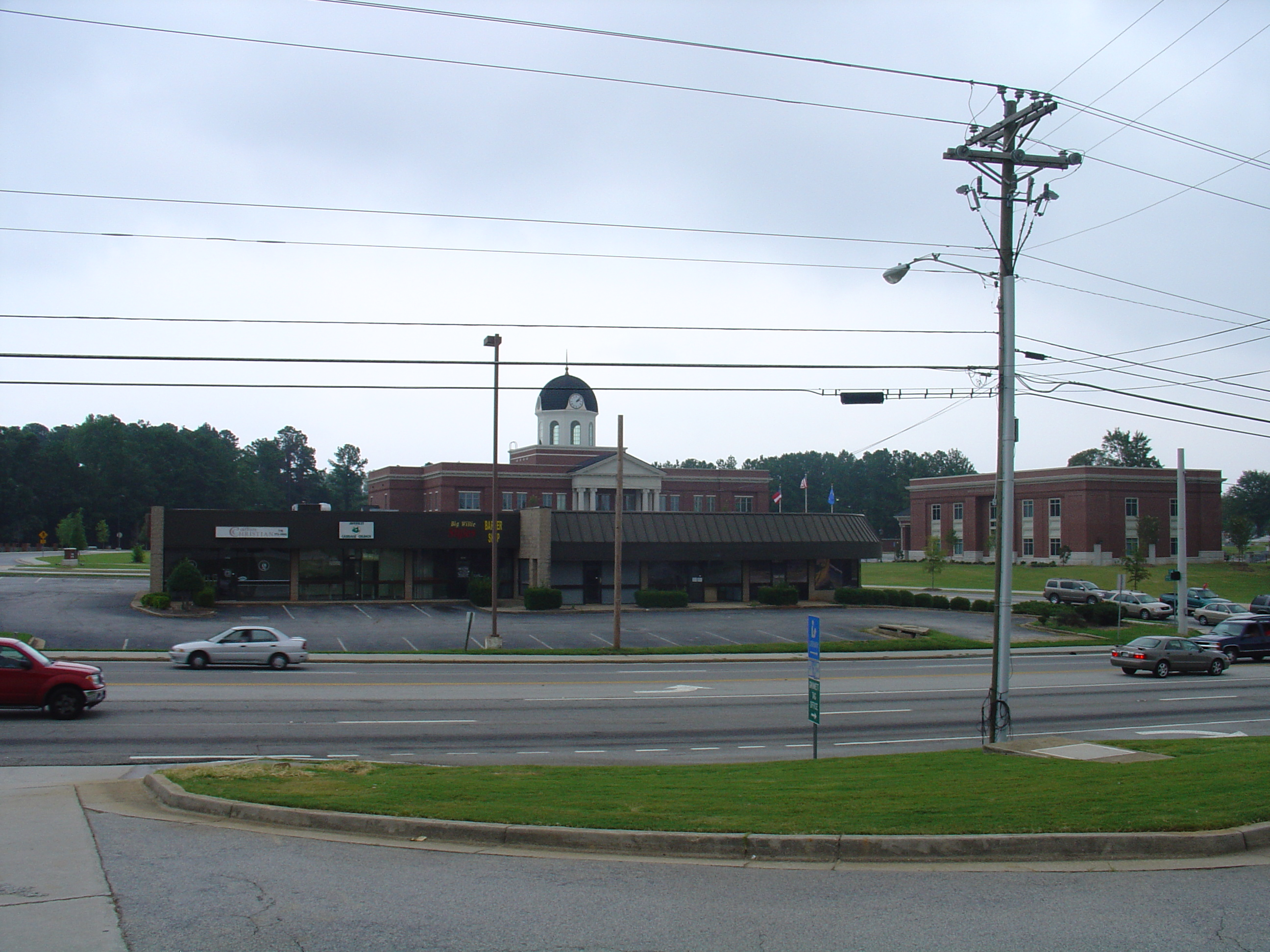 Taken by myself on August 12, 2007 - Jober14 20:38, 15 August 2007 (UTC)